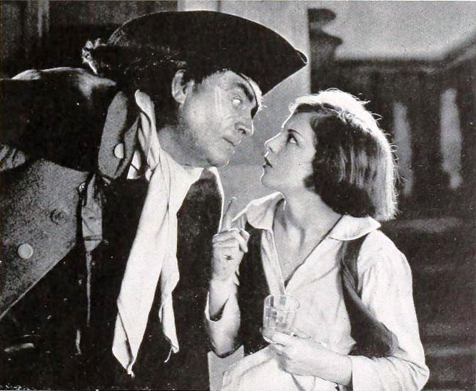 Still from the American silent film Treasure Island (1920) with Charles Ogle and Shirley Mason, published in an adaptation of its script starting at page 59 of the February 1920 Shadowlands. Still caption in magazine: "Jim was seized upon from behind and turned, with a squeal, to confront an individual, chalky of face and wearing an enormous patch over one eye."